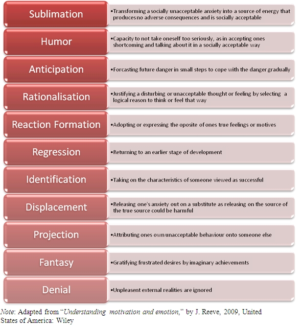 Ego defence mechanisisms and their descriptions